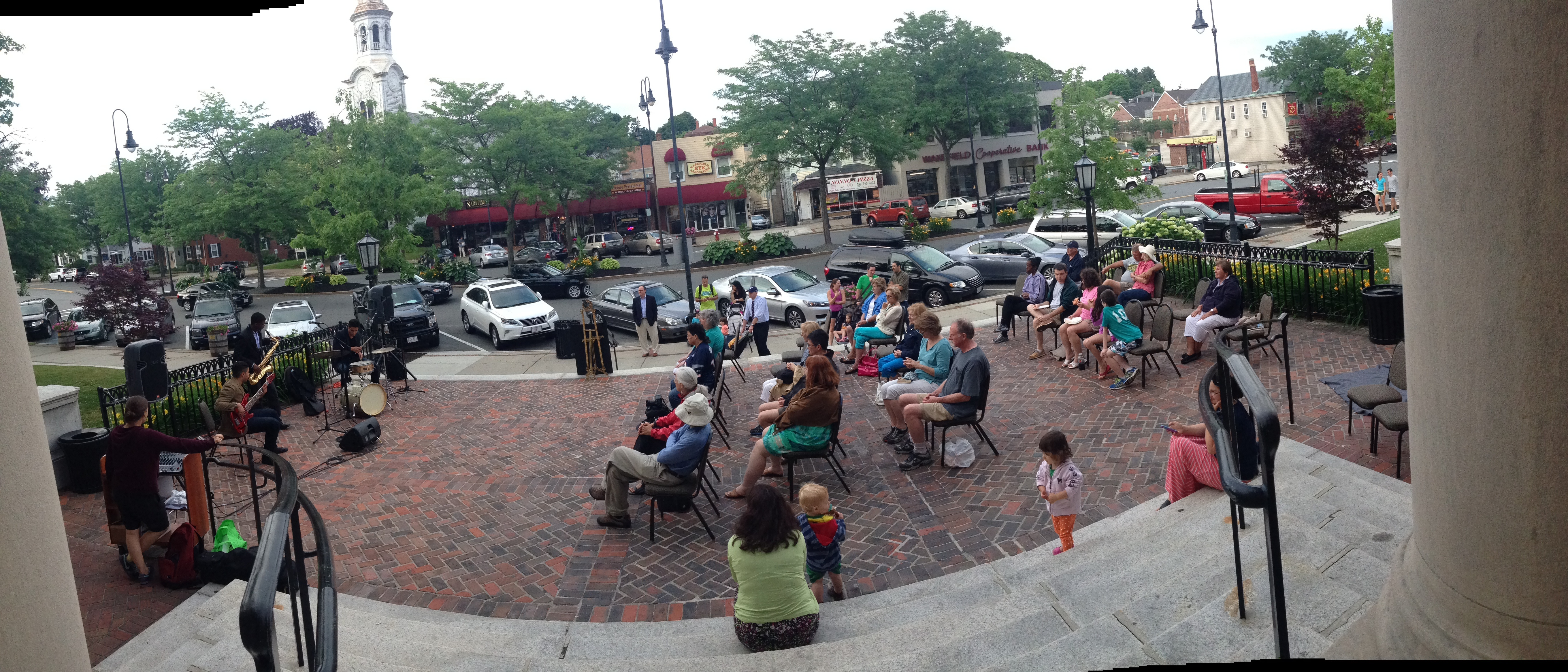 A jazz concert on the steps of Lucius Beebe Memorial Library in Wakefield, Massachusetts, on Thursday, June 26, 2014, showing a good view of Main Street in downtown Wakefield. Unitarian Universalist Church is visible without its spire at left